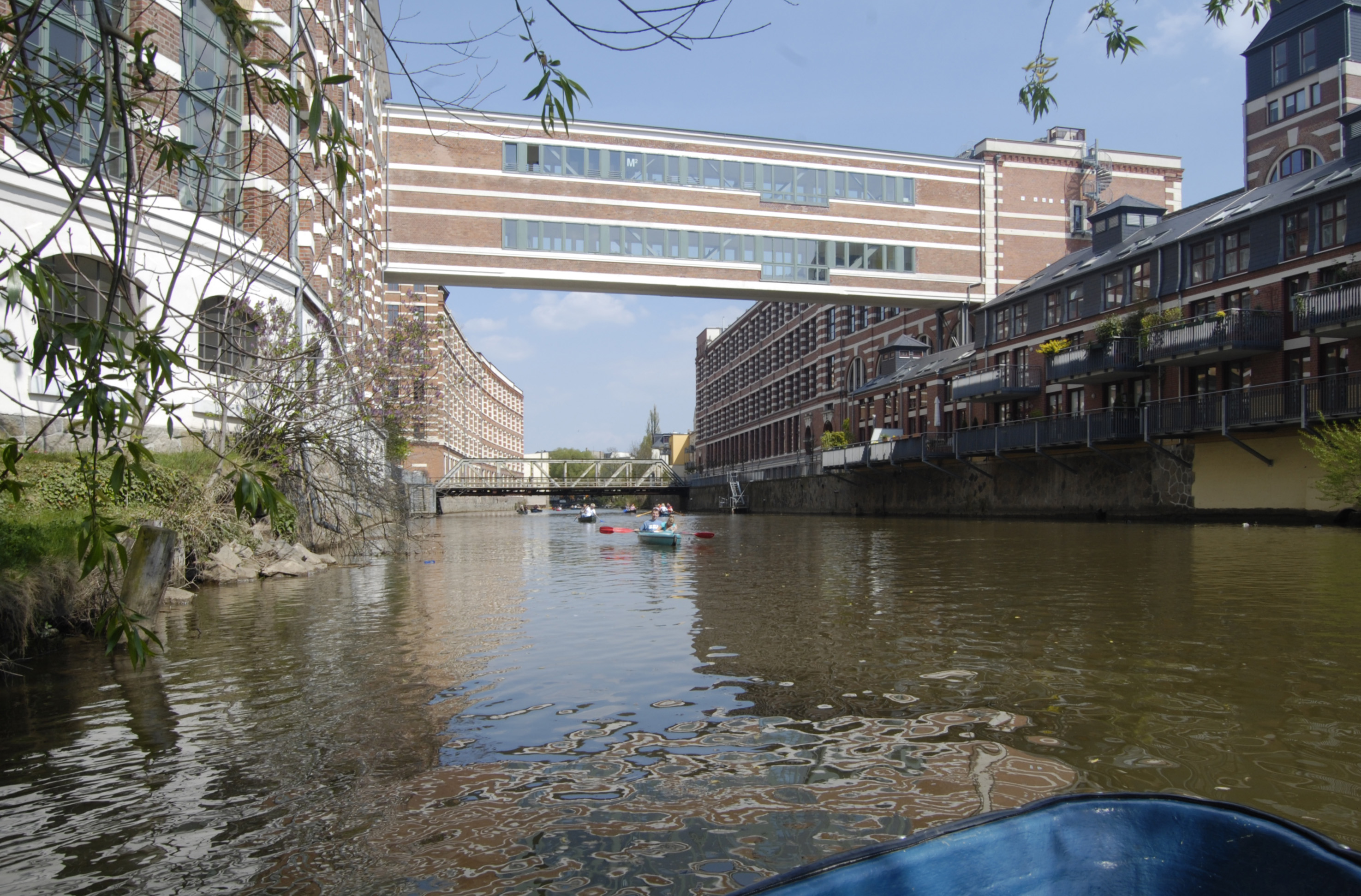 “Saechsiche Wollgarnfabrik” in Leipzig, bridges loft apartments (connecting bridge between “Hochbau West” [on the left] and “Hochbau Sued” [on the right] on the river Weisse Elster) in the “Elster Lofts” during a boat trip on the Weisse Elster